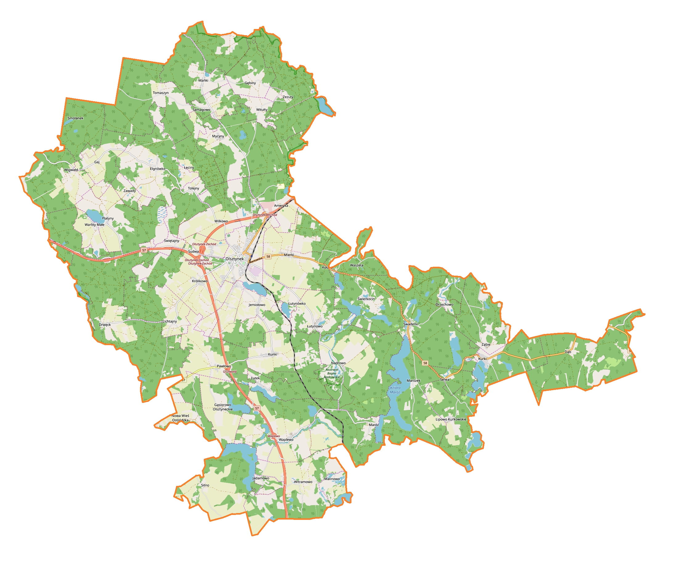 Location map